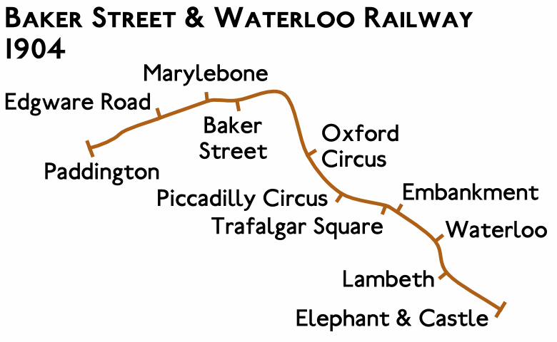 Geographic Map of the Baker Street & Waterloo Railway, 1904.